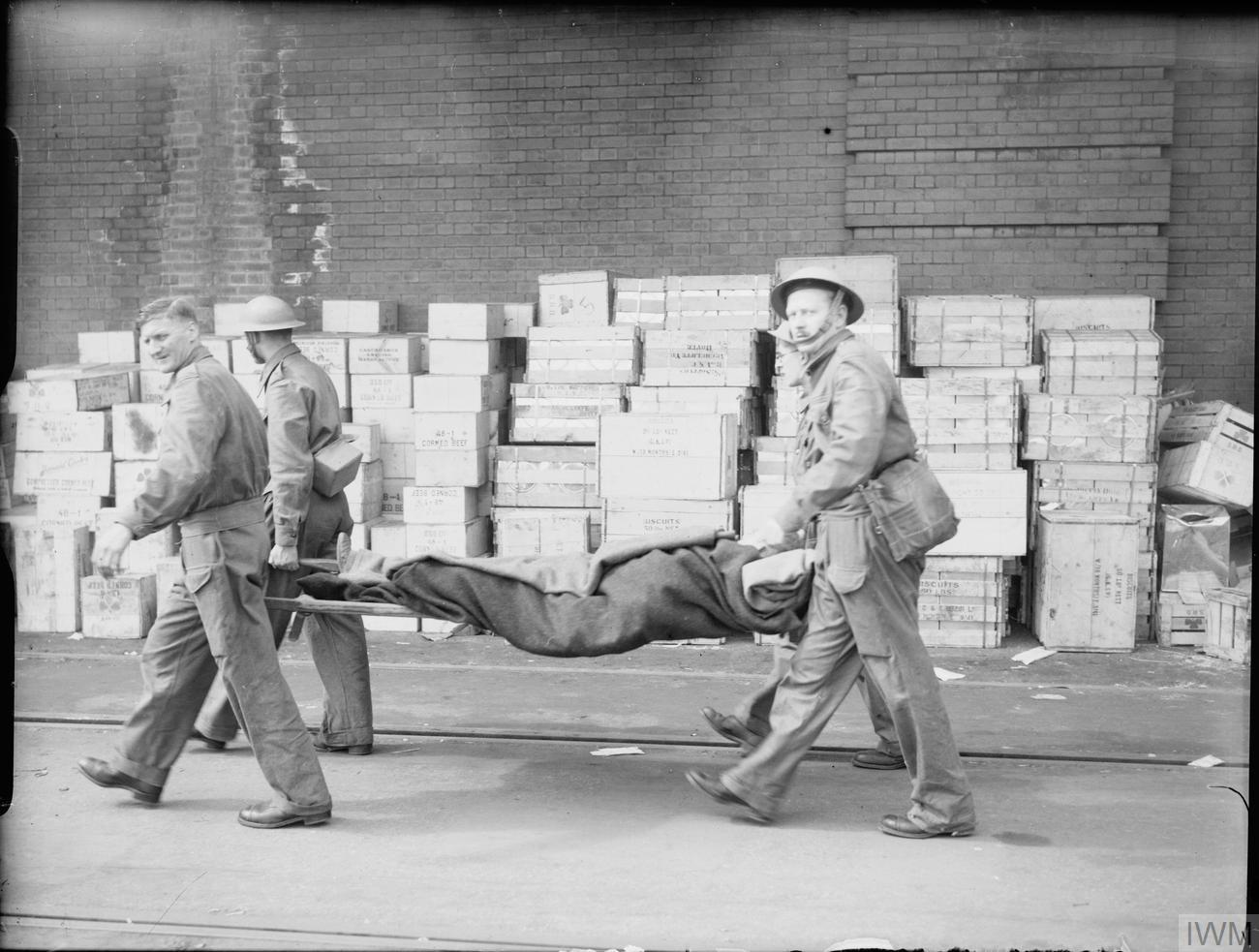 The British Army in the UK- Evacuation From Dunkirk, May-june 1940 Soldiers carrying a stretcher case along the quayside at Dover, 31 May 1940. Note the crates of 'bully beef' and biscuits stacked behind.